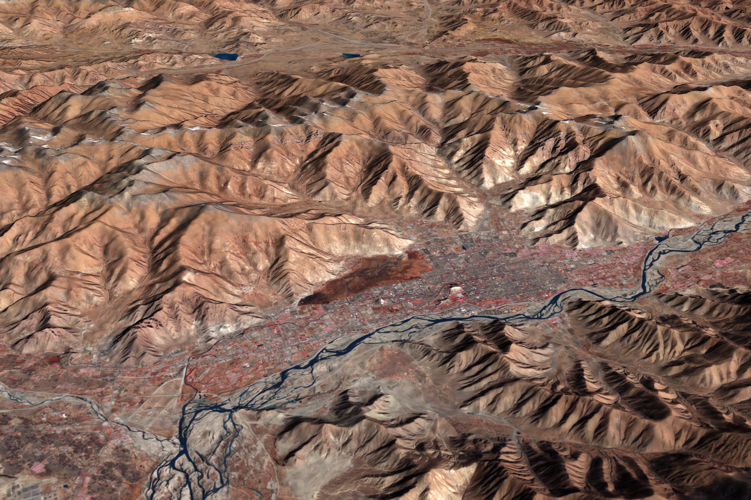 Mountains seem to radiate spoke-like from the flat plain on which the city is built. The city, however, is an oasis. Lhasa is red and silver in the false colour image in which plant-covered land is red and man-made surfaces tend to be silver or white. The Lhasa River winds through the valley. Its wandering channels provide evidence that the ground is relatively flat, since the topography of the land isn’t forcing the river’s course. The fortress-like Potala Palace complex sits on a small rise in the centre of the city, forming two large white squares that are roughly the size of the city blocks visible around the complex. It is the largest single man-made surface in the image. The summer palace, Norbulingka, by contrast, is the largest park in the image. It is the red, plant-covered rectangle west of Potala Palace. The two sites together are a World Heritage Site. The final most notable feature in the image is the Lhalu Wetland Nature Reserve on the northern side of the city. The reserve is red-brown with black smudges where water darkens the surface. The natural wetland influences Lhasa’s climate, adding humidity to the city. The plants are also an important source of oxygen to a city with a thin, high-altitude atmosphere. The Lhalu Wetland Nature Reserve provides habitat for a wide range of birds.